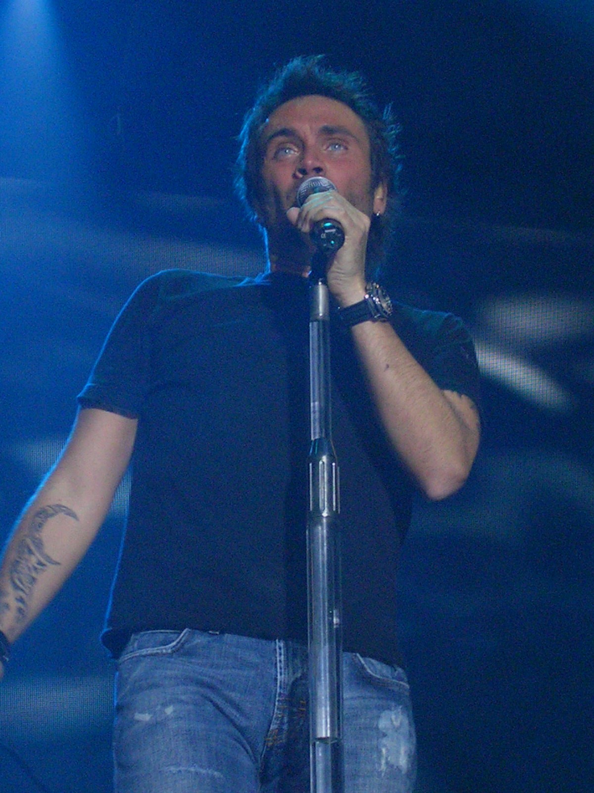 Nek in concert at Assago, Milan, Italy